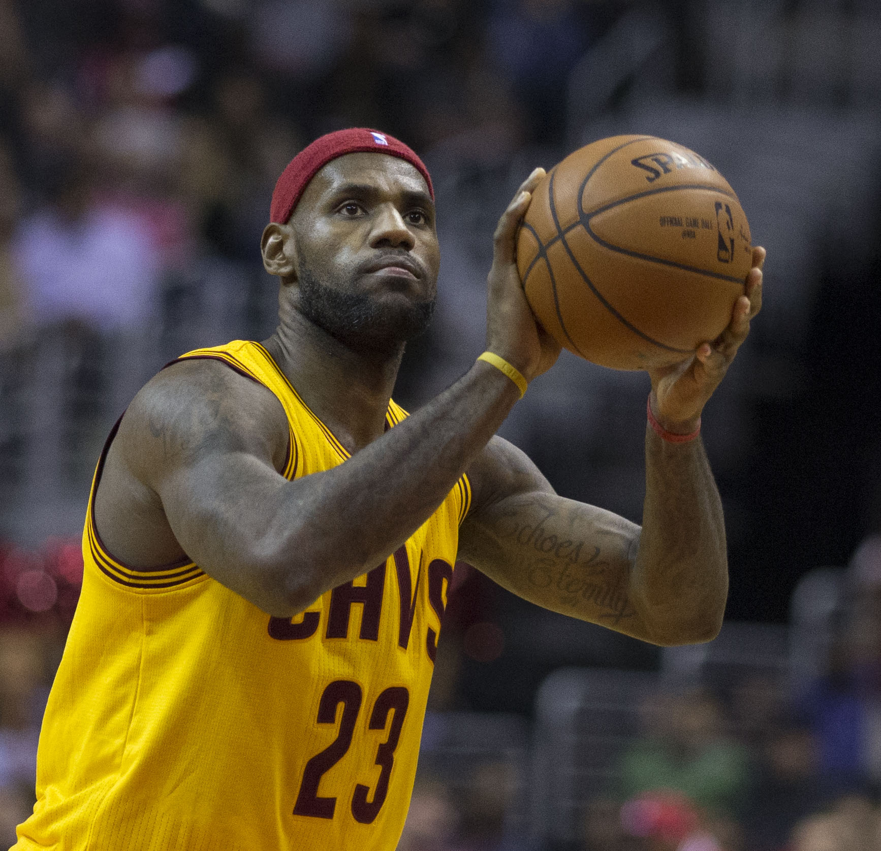 LeBron James of the Cleveland Cavaliers in a game against the Washington Wizards at Verizon Center on November 21, 2014 in Washington, DC.